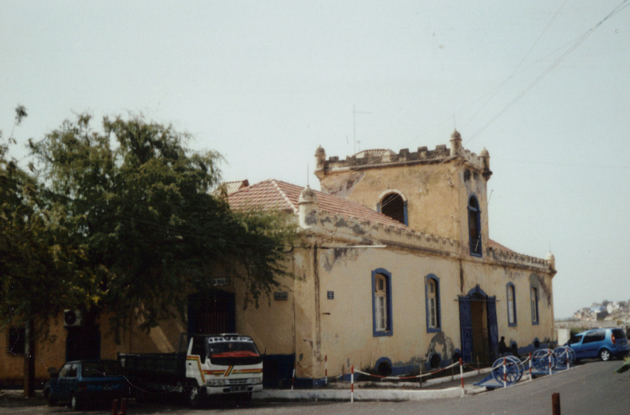 Jaime Mota Barracks (built 1826), Praia, Cape Verde